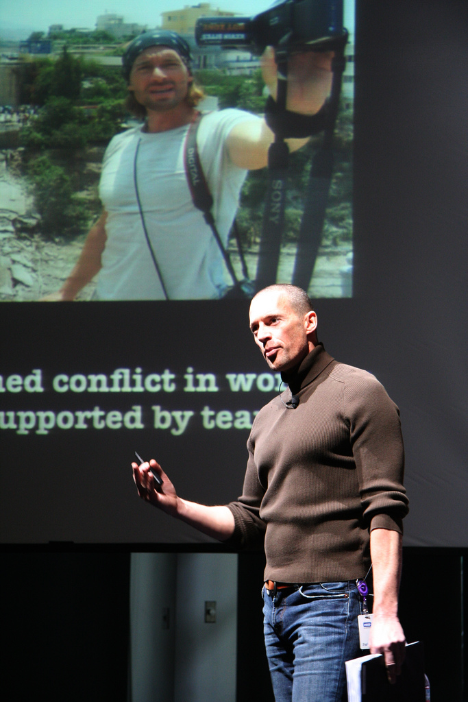 Kevin Sites, war reporter. Speaking at Yahoo!.jpg